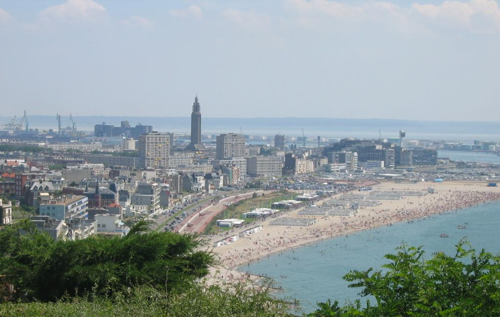 Le Havre, beach on summer 2005. I took this picture (Urban 15:37, 14 July 2005 (UTC)).